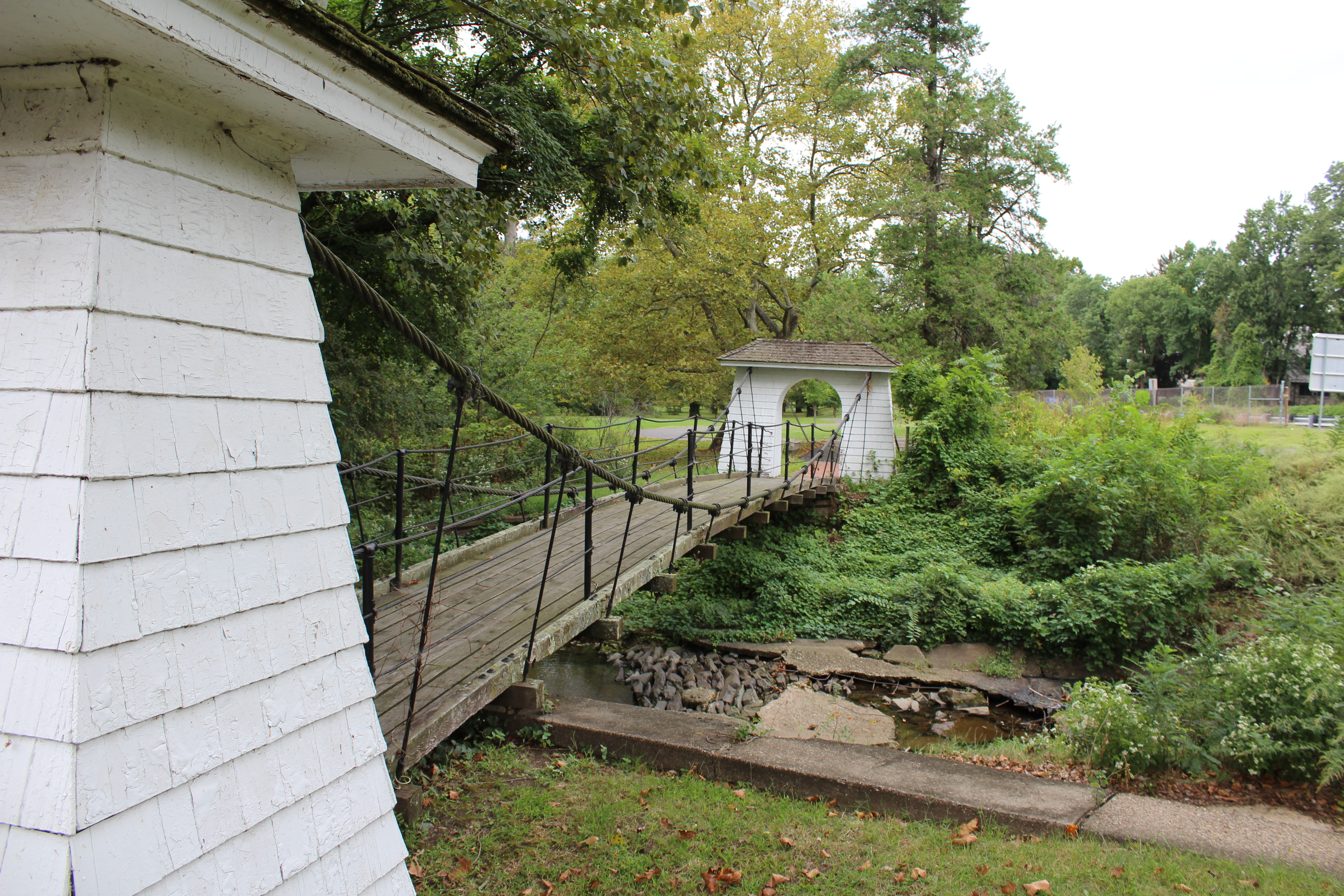 Shaky Bridge demonstration Project from John A. Roebling